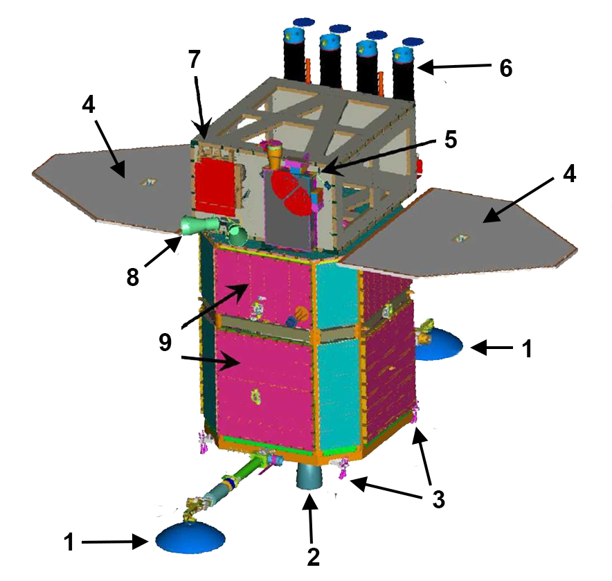 Solar-Dynamics-Observatory-Spacecraft-Schematic-View